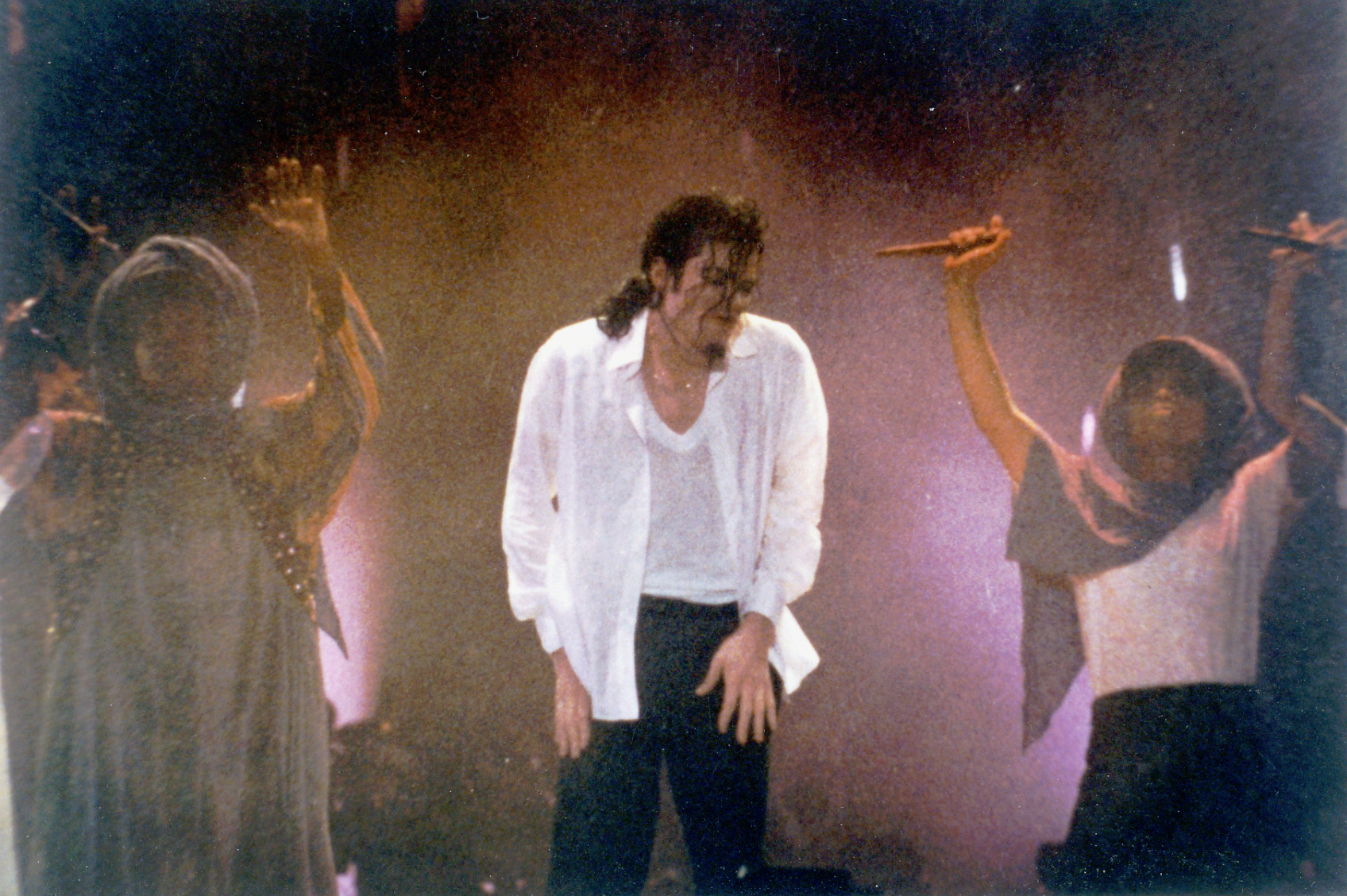 Singer Michael Jackson performing "Will You Be There" in Monza (Italy) on July 6, 1992.